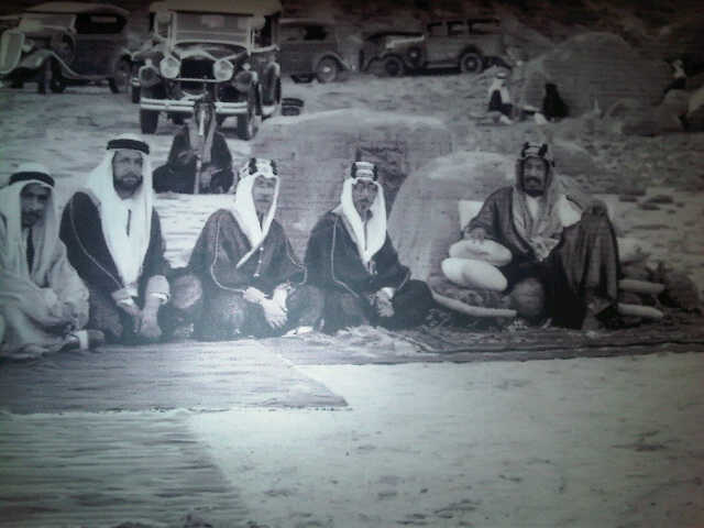 King Ibn Saud with Jamil Mardam Bey Taif - 1934, photo taken by Hikmat Madam Bey